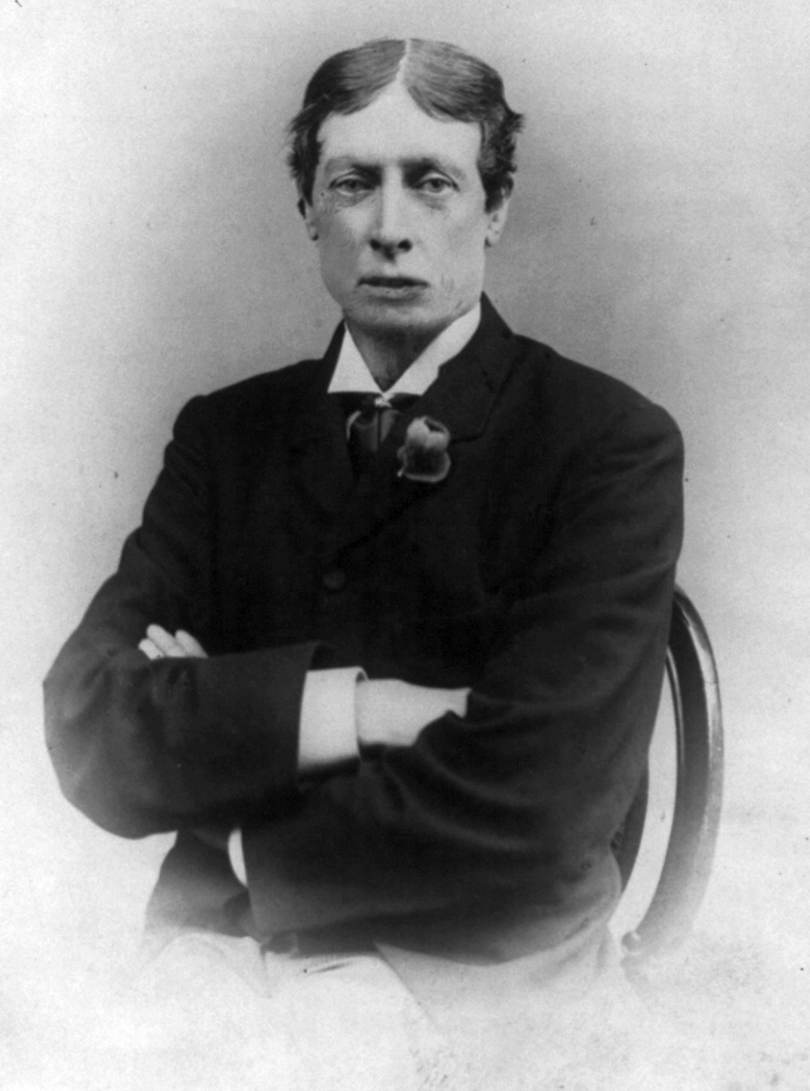 Henry Eeles Dresser, half-length portrait, seated, with arms folded